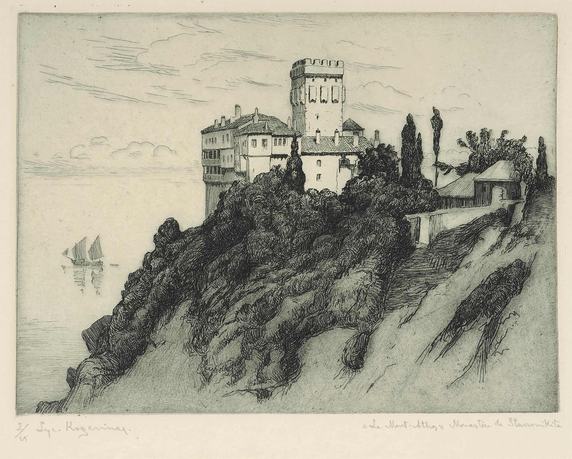 Kogevinas lykourgos Le mont Athos